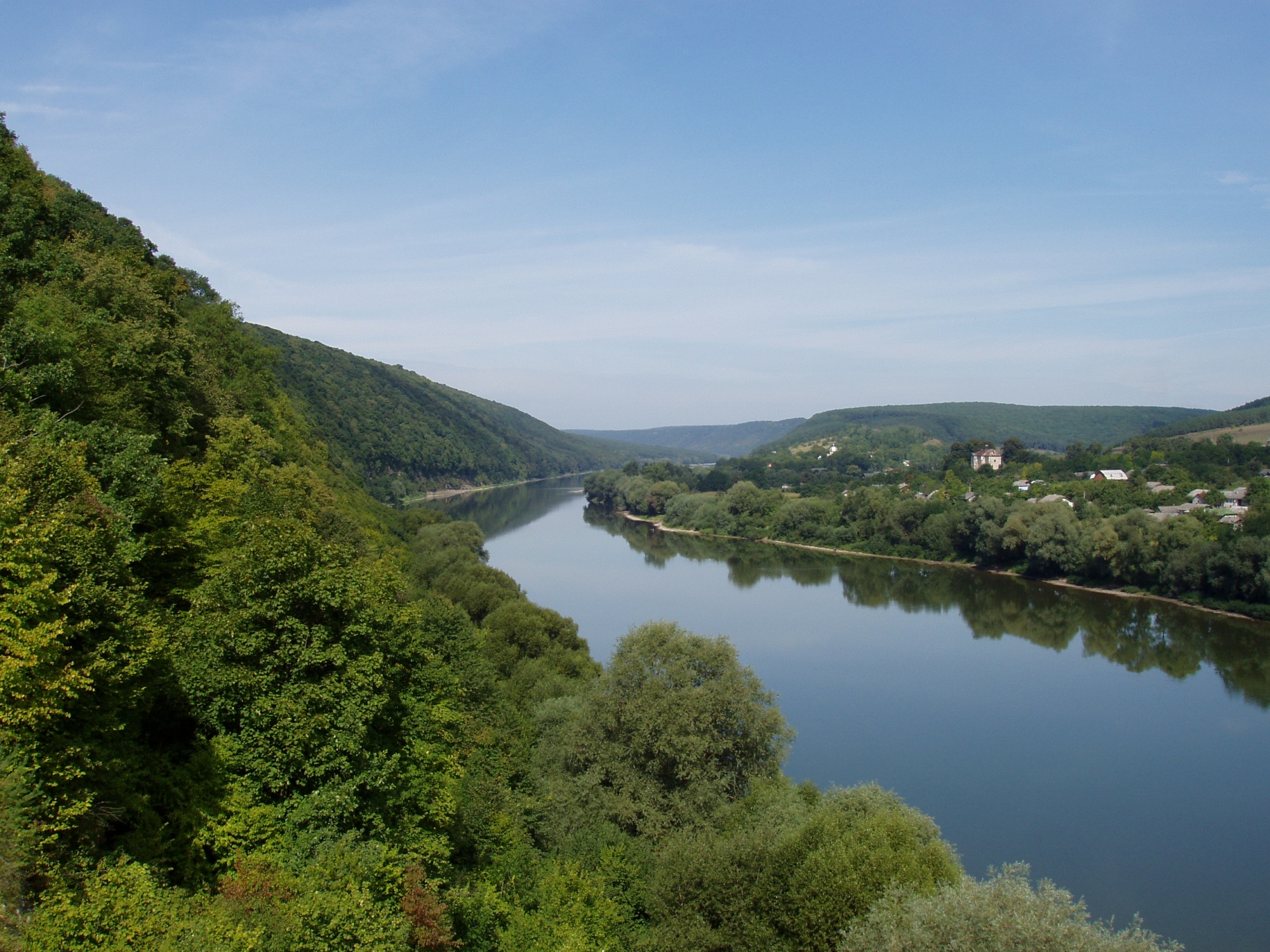 Dniester canyon near Ustechko village (Ternopil Oblast, Ukraine)